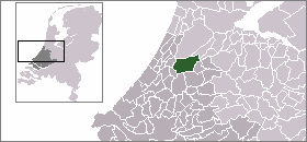 Kaag_en_Braassem (derived from maps from by user:Mtcv)